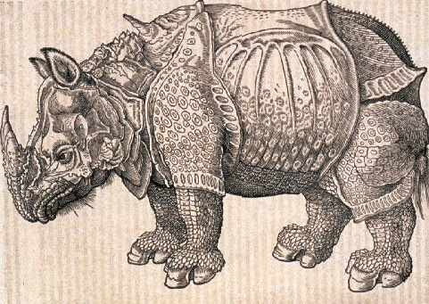 Conrad Gesner's illustration of a rhinoceros. Itself a copy of Albrecht Dürer's 1515 drawing File:Dürer - Rhinoceros.jpg.